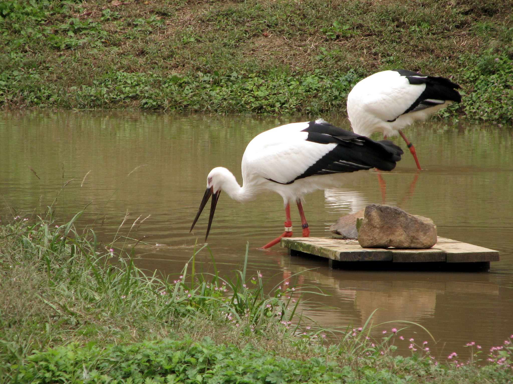 A Oriental Stork in Toyooka, Hyōgo Prefecture, Japan.